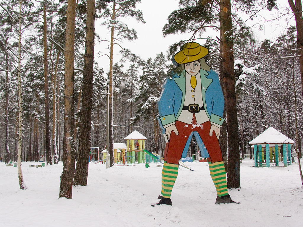 Park for children in Krasnogorsk